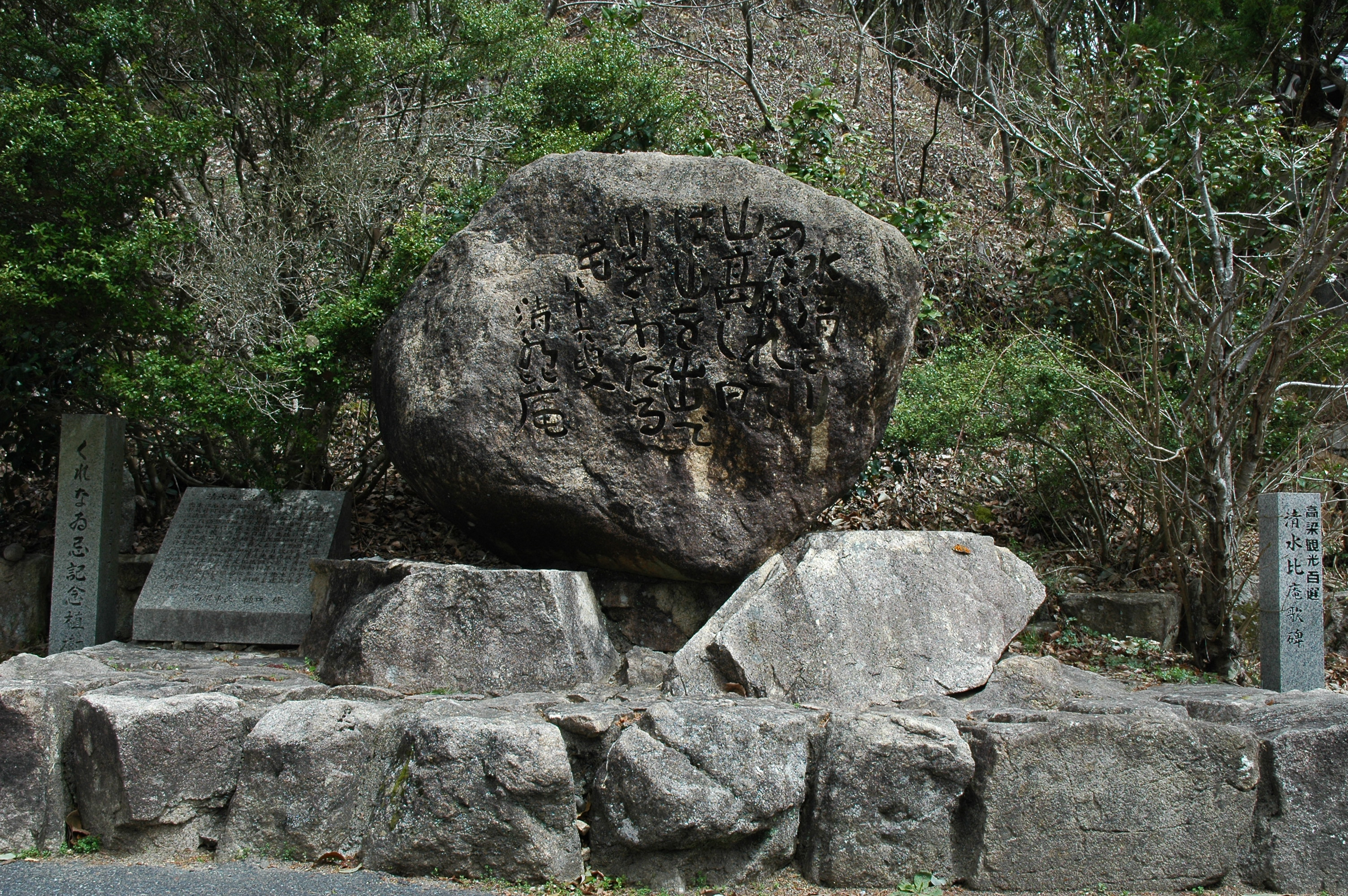 a tanka stone monument of Shimizu Hian in Bitcū Matsuyama castle(He was a Japanese tanka poet and calligrapher)